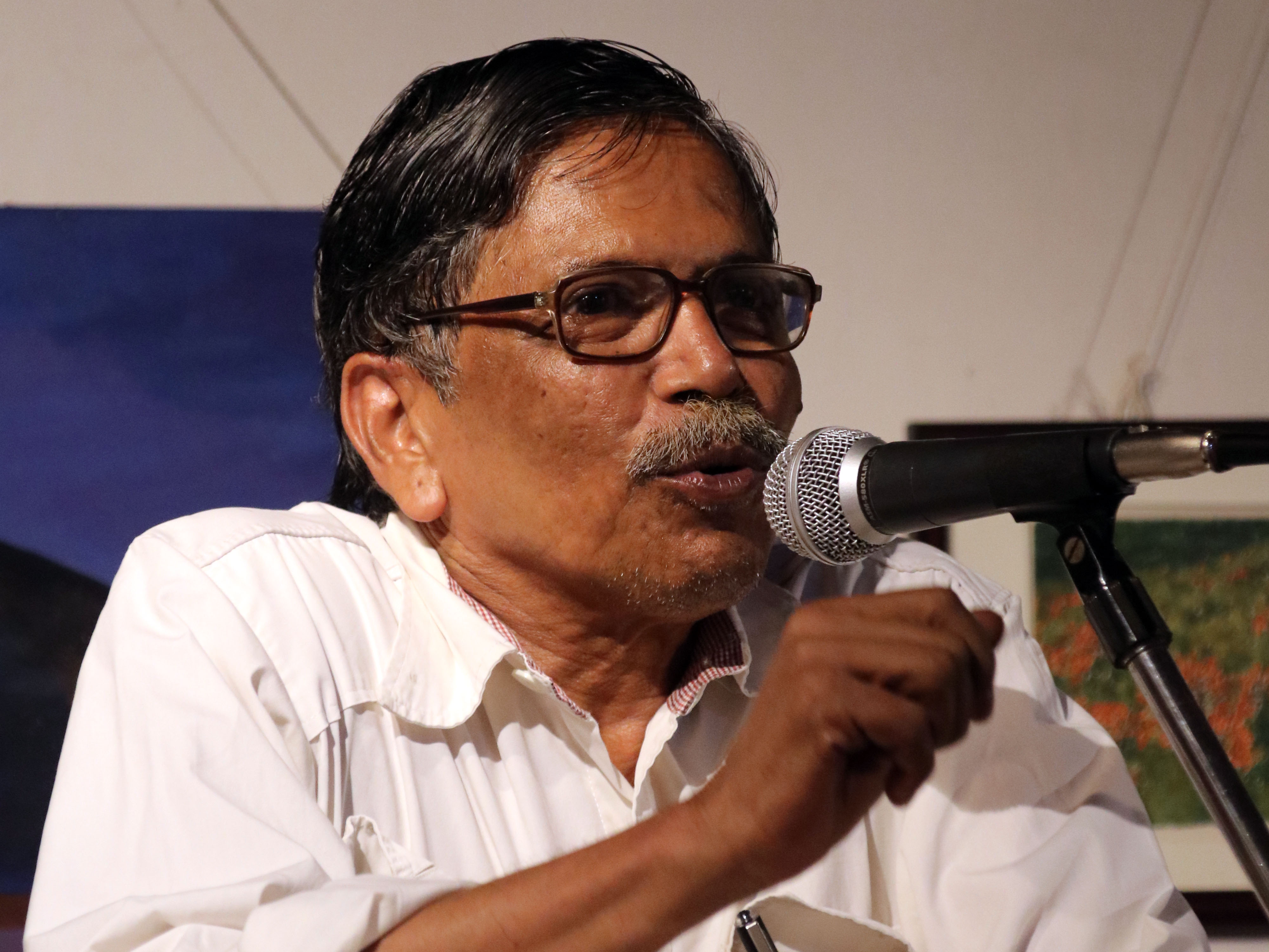 Malayalam literary critic, playwright and screenplay writer N.Sasidharan speaking at poetry reading session at Tellicherry Arts Society